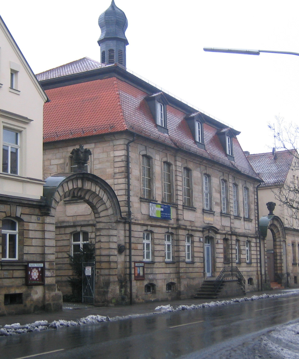 The Evangelical Reformed Church in Bayreuth, Bavaria, Germany, is owned and used by a Reformed congregation within the Evangelical Reformed Church – Synod of Reformed Churches in Bavaria and Northwestern Germany.